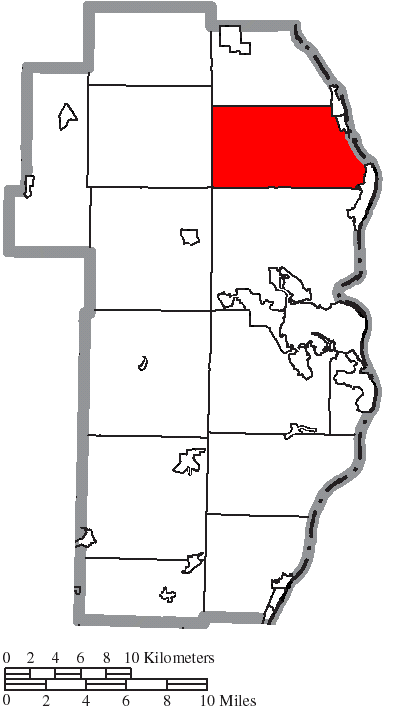 Map of the municipal and township boundaries of Jefferson County, Ohio, United States, as of the 2000 census, with the location of Knox Township highlighted. Township borders are shown only in unincorporated areas in order to differentiate incorporated and unincorporated areas more clearly.